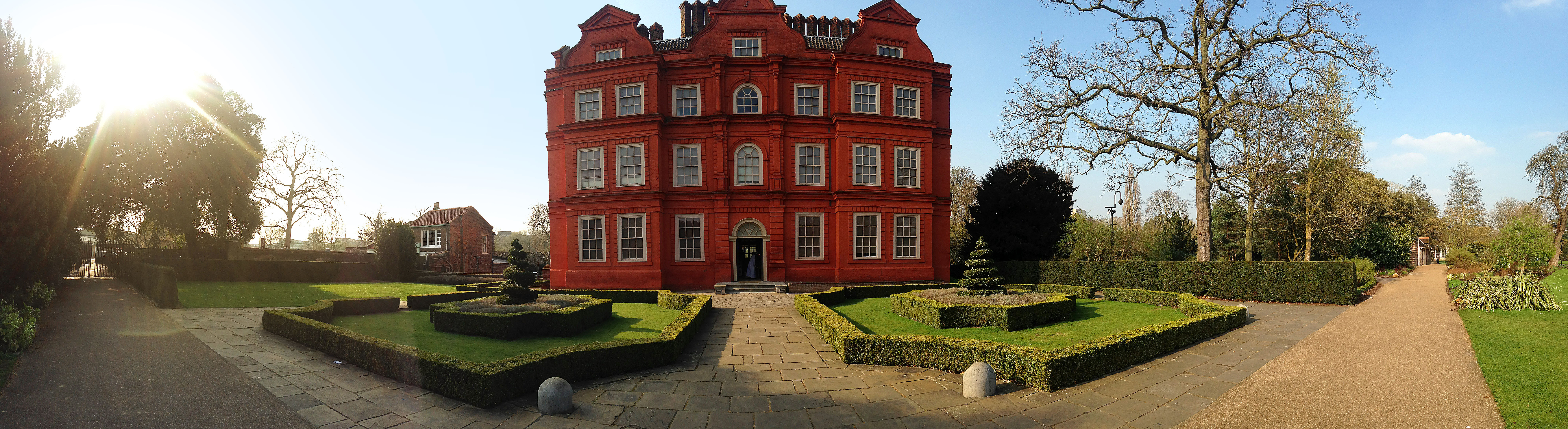 Kew Palace pictured on the sunny day at Kew Royal Botanic Gardens in London on 9th April, 2015.